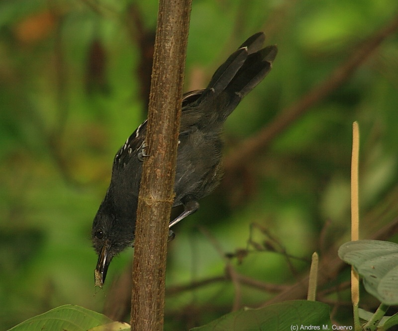 aligning with Piper inflorescences